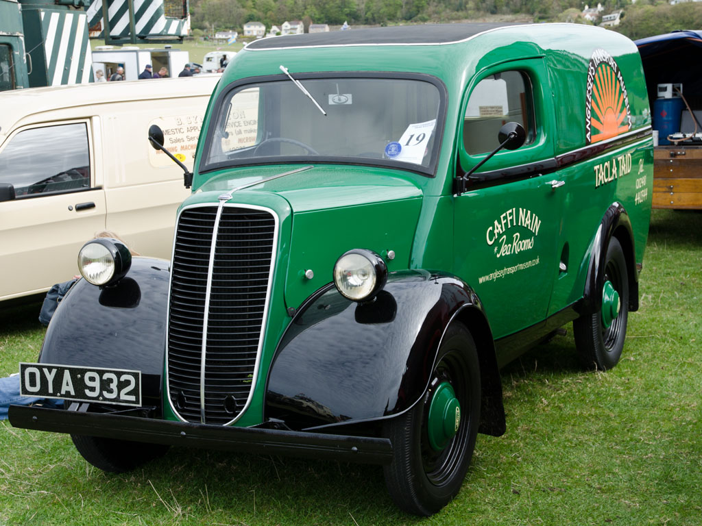 Llandudno Transport Festival 04/05/2013